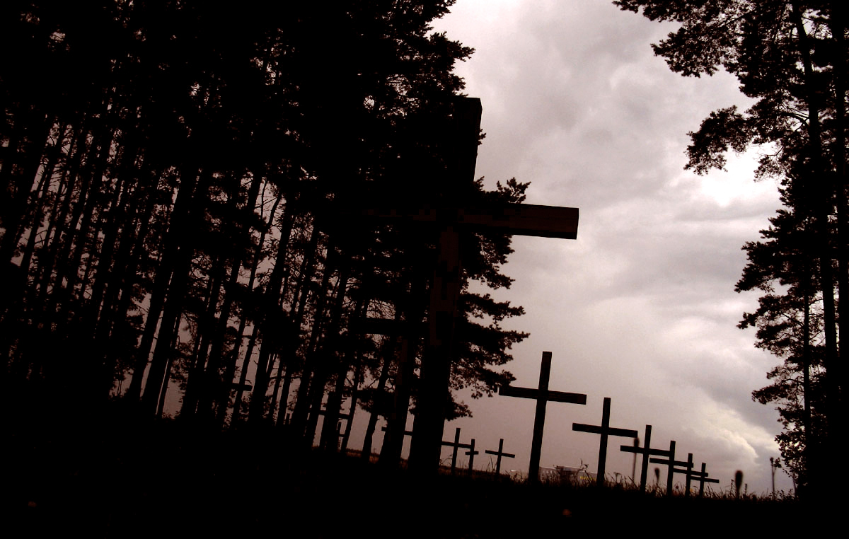 Kurapaty near Minsk is the place where mass executions of Belarusian civilians were carried out during the Stalin regime (1937 - 1941) Беларуская (тарашкевіца): Урочышча Курапаты пад Менскам — месца масавых расстрэлаў і пахаваньняў беларускіх цывільных асобаў, зьдзейсьненыя падчас сталінскіх рэпрэсіяў у 1937—1941 гадох